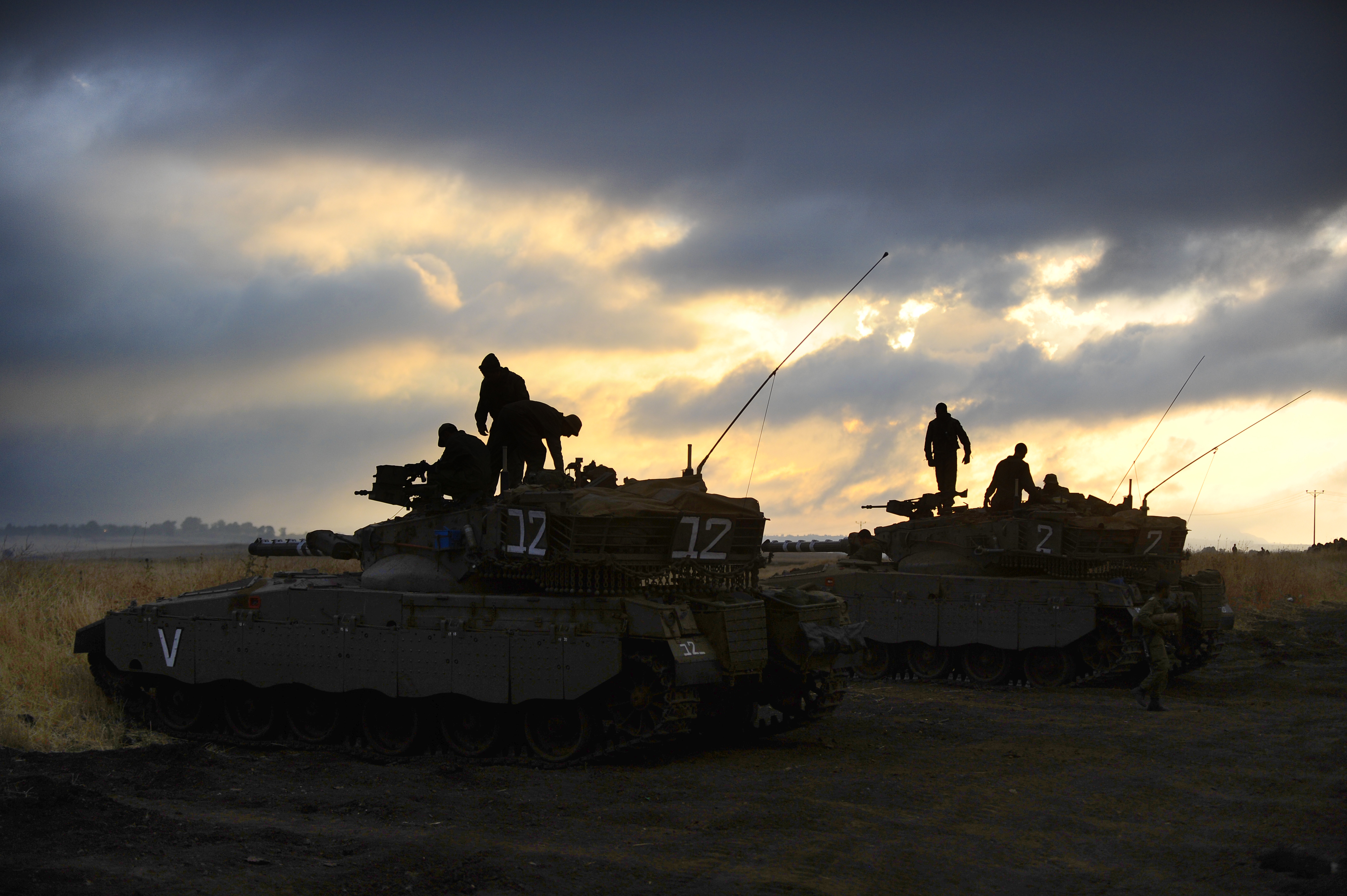 May 22, On May 22, the Nahal Brigade conducted a brigade-wide drill. The drill, also combining armored and air forces, tested the awareness and abilities of all of the brigade's soldiers. The Israel Defense Forces Facebook • blog • Twitter